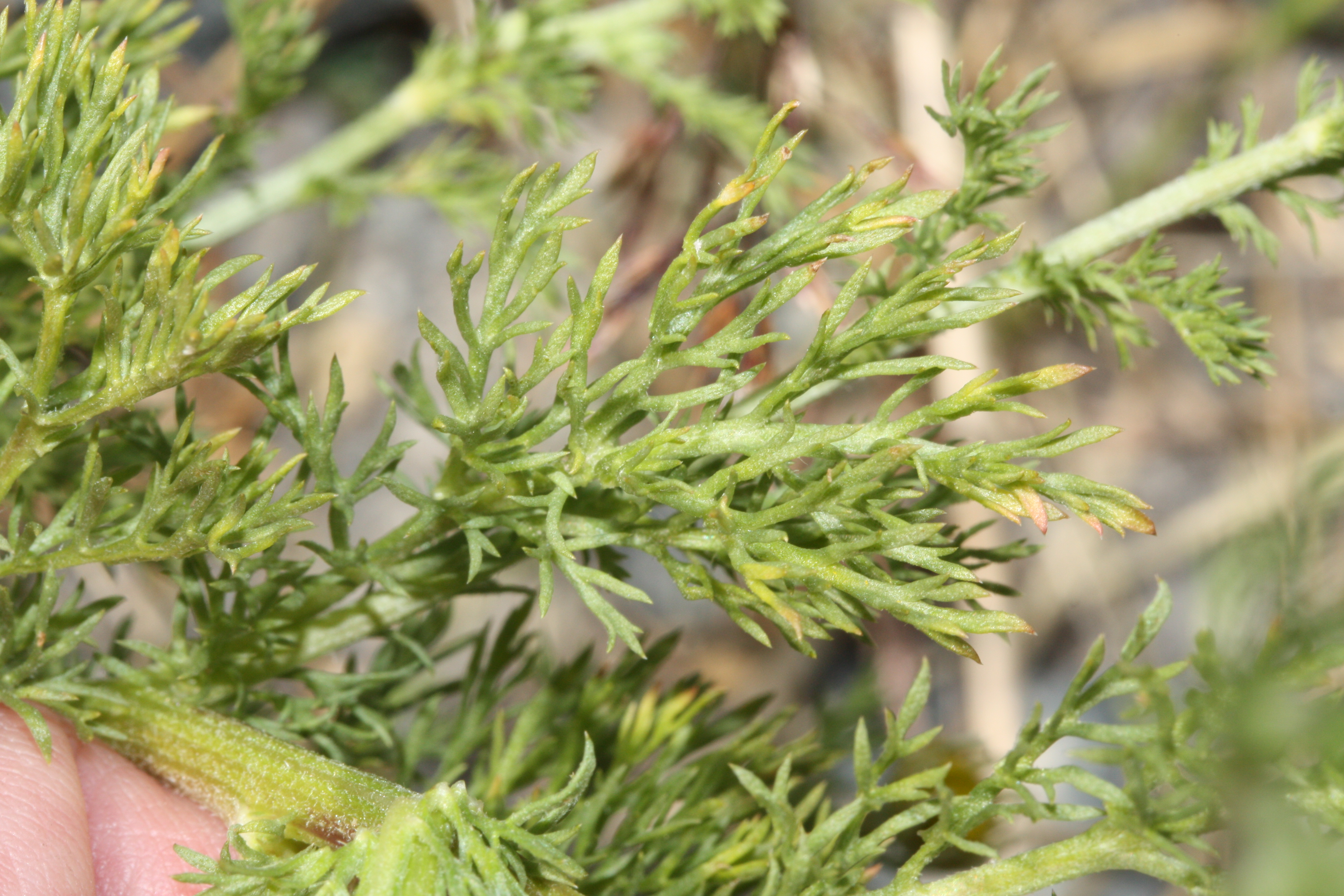 Corn Chamomile, Field Chamomile